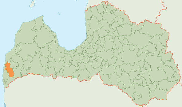 Map of Grobiņa